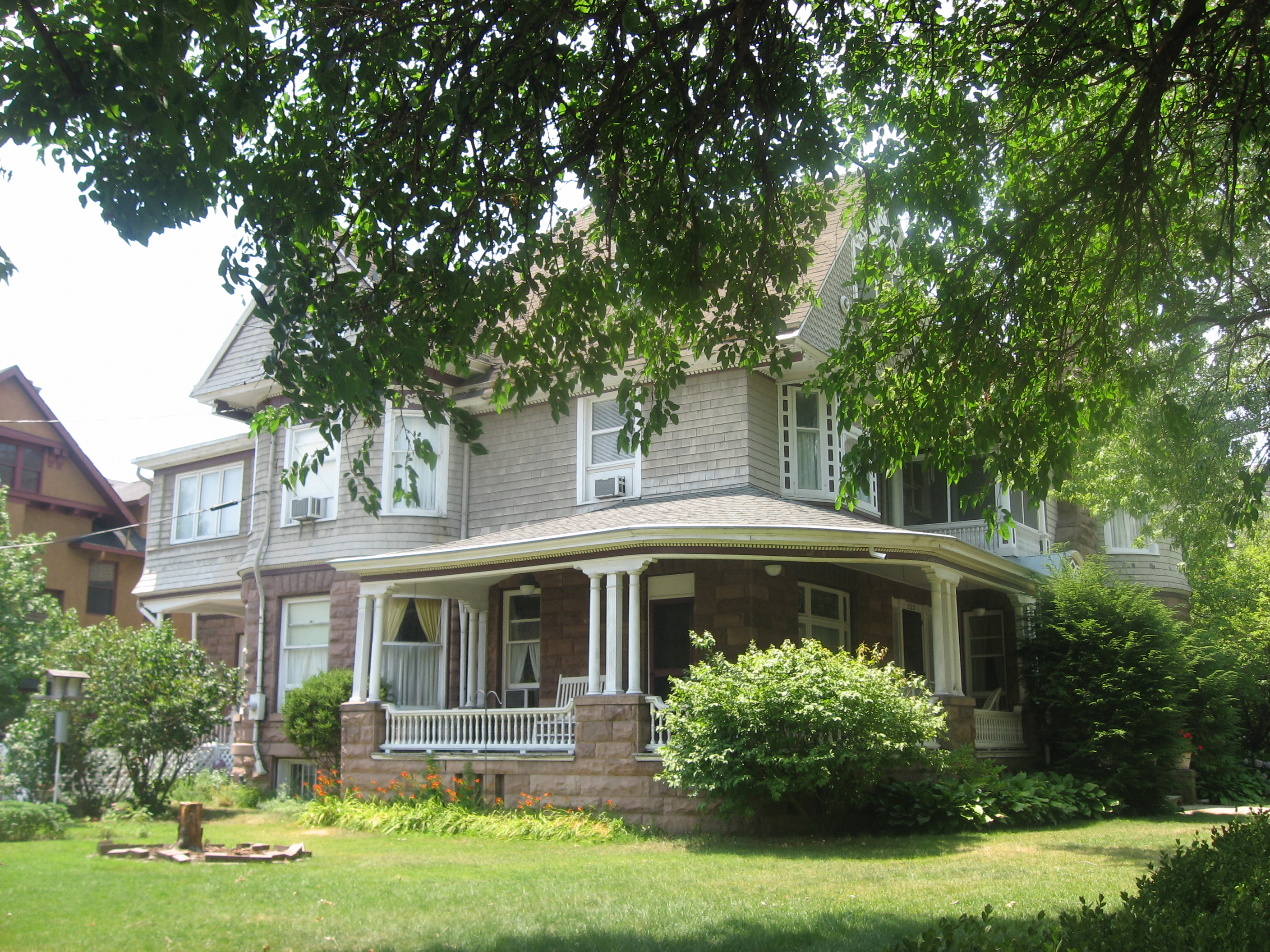 Eastern side and front of the Morey-Lampert House, located at 322 W. Washington Street in South Bend, Indiana, United States. Built in 1895, it is listed on the National Register of Historic Places.